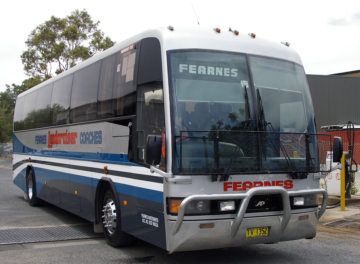 Austral Pacific Group (APG) Classic III 4x2 owned by Fearnes Coaches.